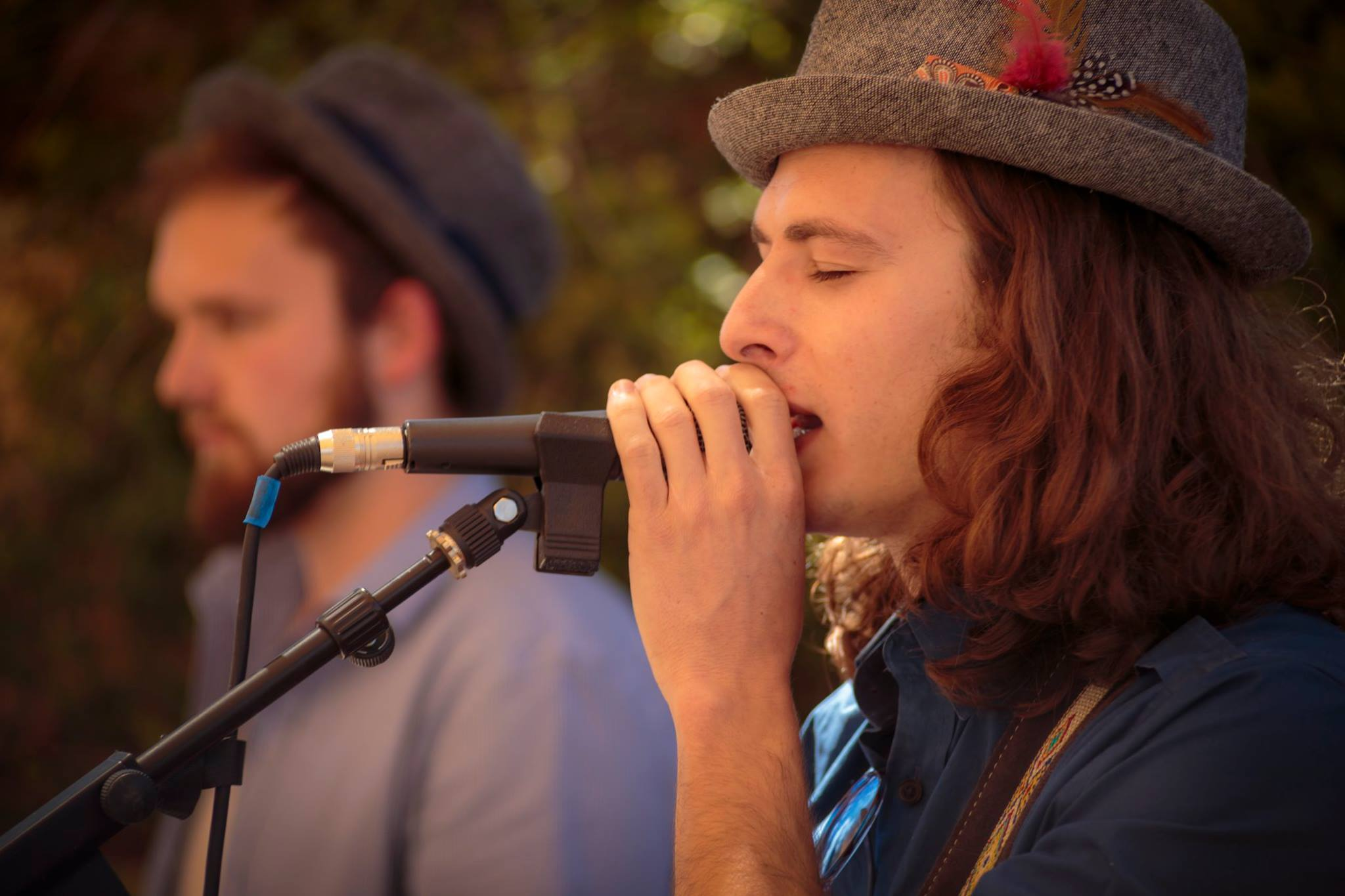 Sruli (right) and Mendy (left) of the Portnoy Brothers at Day to Praise 2016.